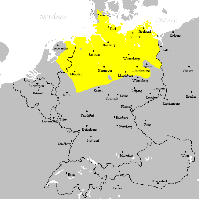 Low Saxon dialects since 1945